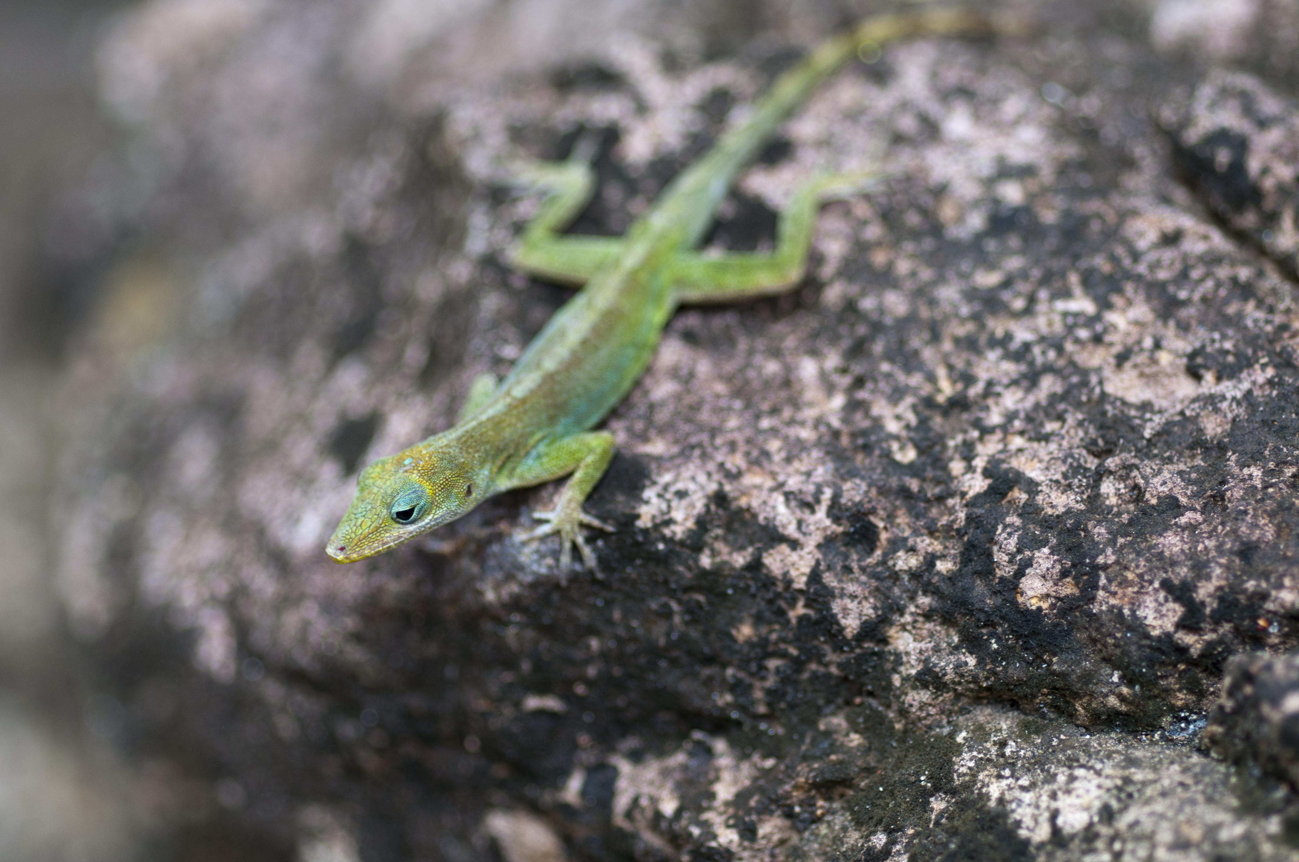 Anolis marmoratus inornatus